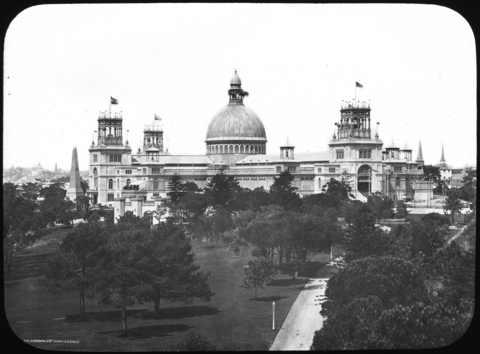 Built in only eight months to house the Sydney International Exhibition which opened 17 September 1879. It burnt down on September 22 1882. [NRS 4481 No. 2920, Reel 2718] » View the Garden Palace Fire Gallery (photos and documents including a report by the night watchman) Rights: We'd love to hear from you if you use our photos. Many other photos in our collection are available to view and browse on our website using Photo Investigator.